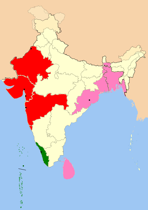 A map showing the connections of Mahls to various part of subcontinent.